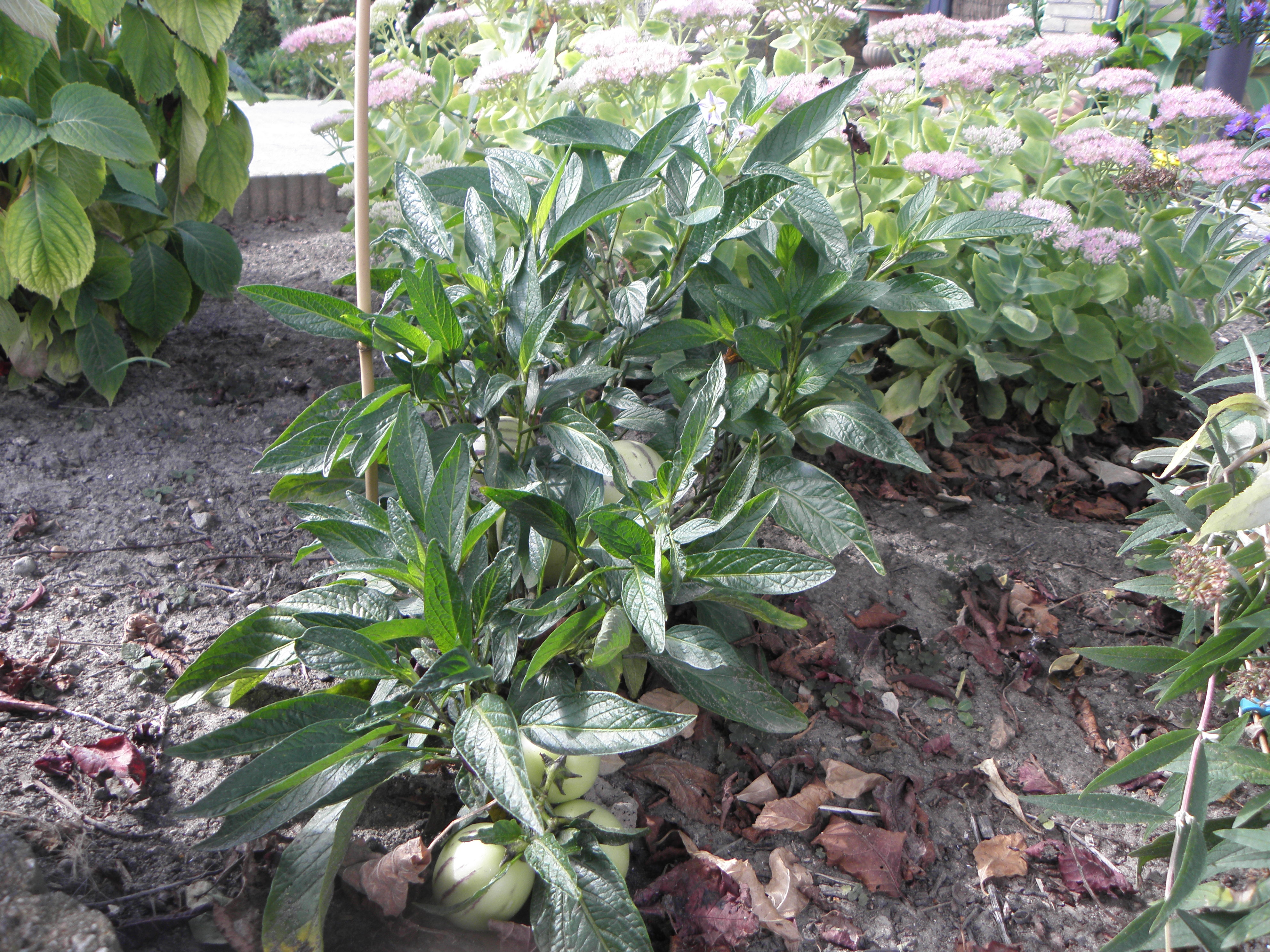 sweet pepino